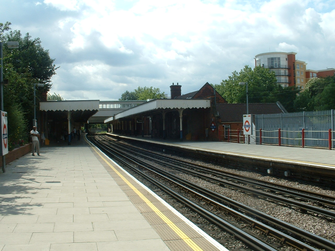 Westbound view of Newbury Park tube station. Note: the platforms are aligned north/south here, so the view is actually towards the south! Sunil060902, 28th July 2007.